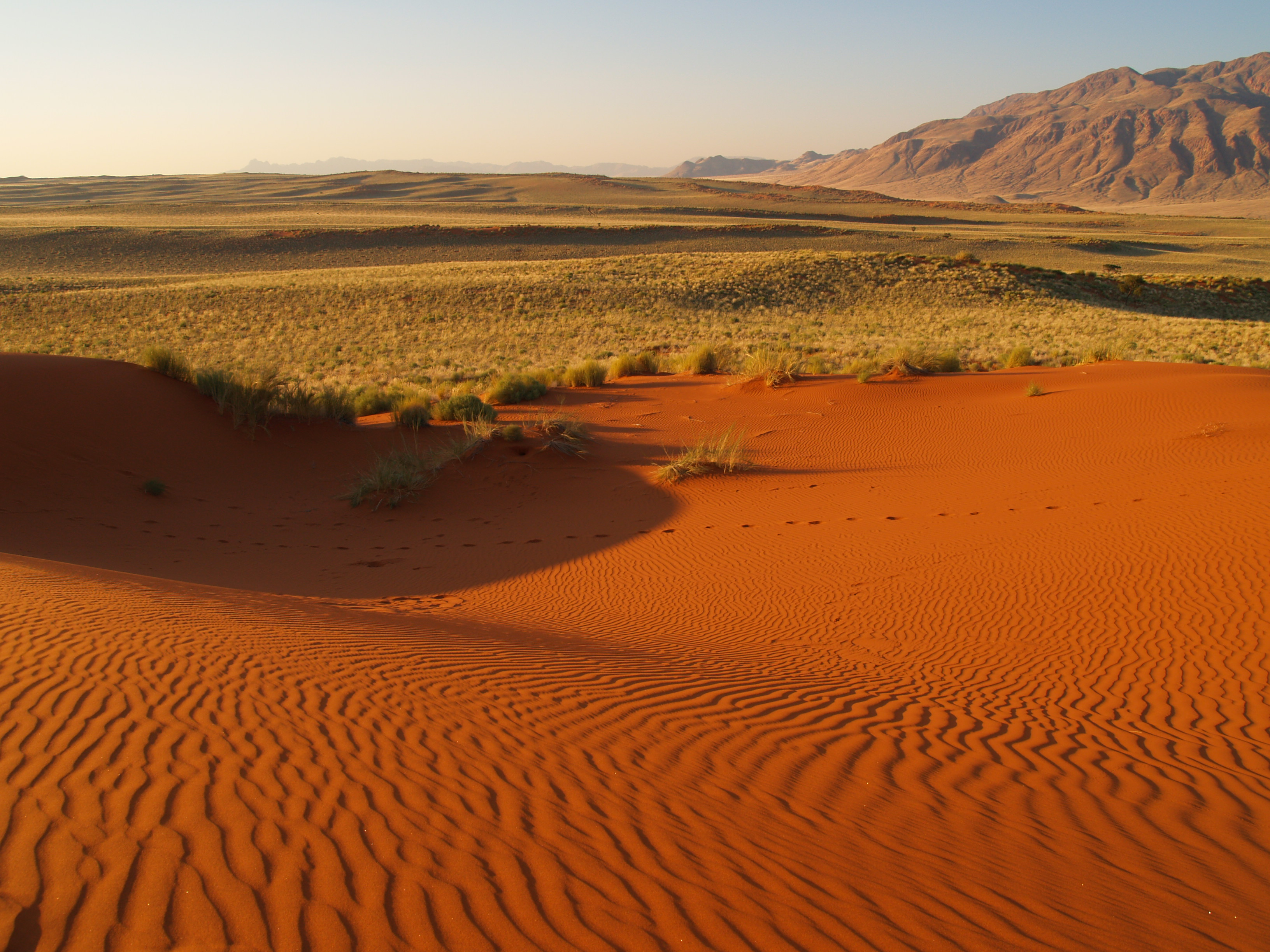 Red sand dune in Namibia (Wolwedans)